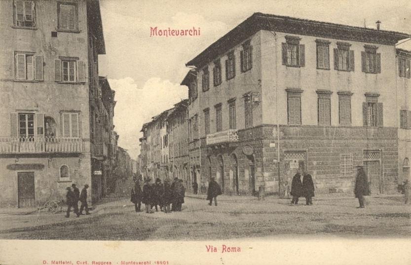 Via Roma, Montevarchi. Postcard realized by Vestri Studio on old Vestri's pictures